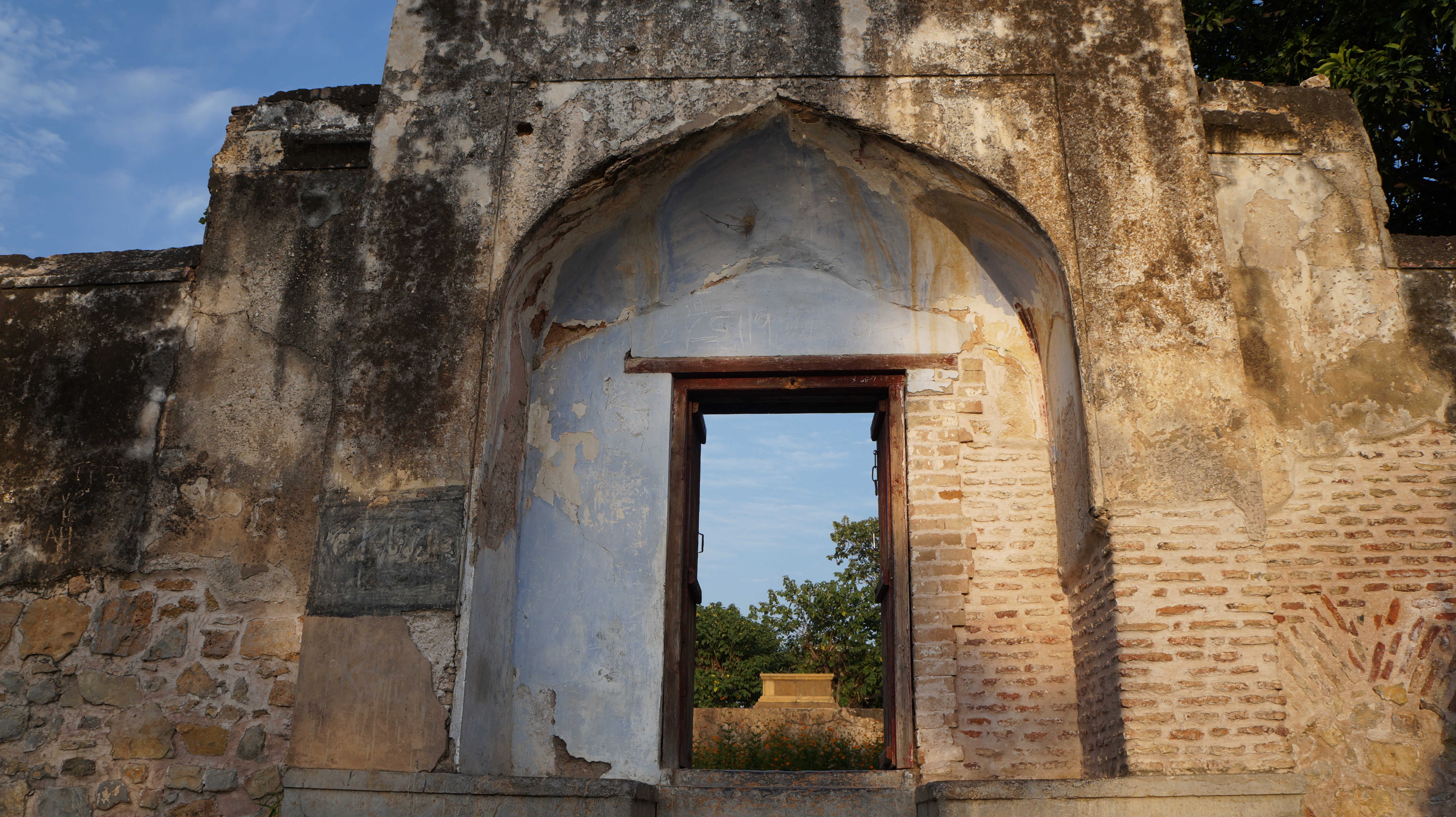 Tomb of Lala Rukh This is a photo of a monument in Pakistan identified as the PB-1